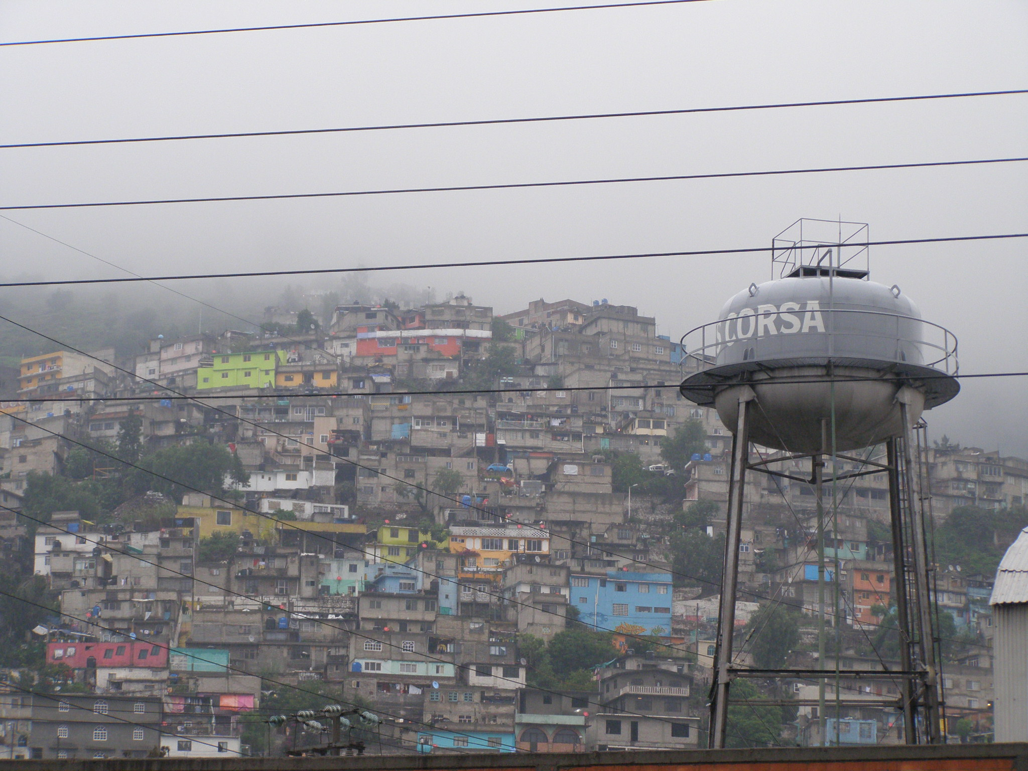 Irregular settlements in Tlalnepantla de Baz, Mexico.